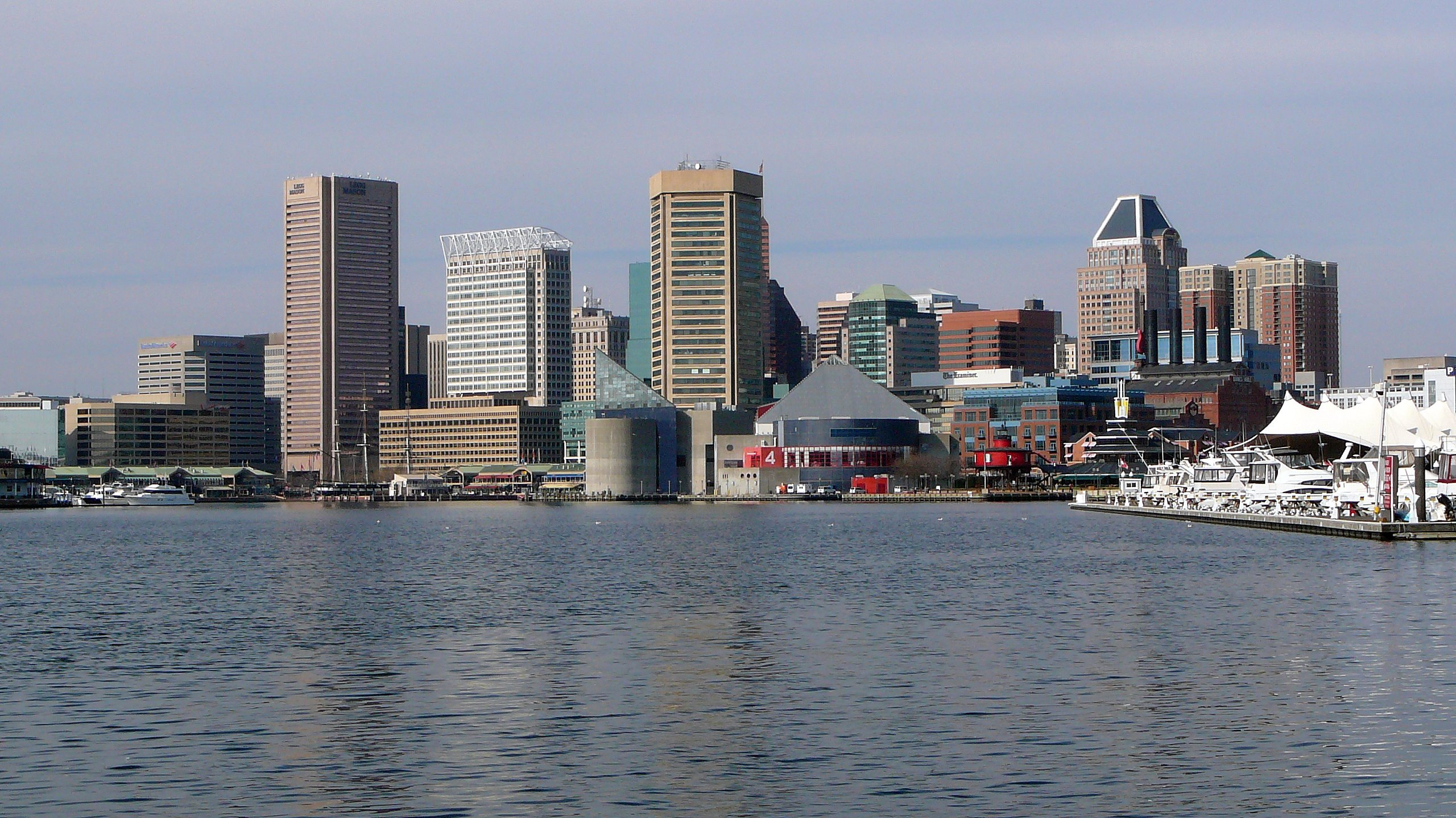 Baltimore, Maryland Skyline from the Inner Harbor